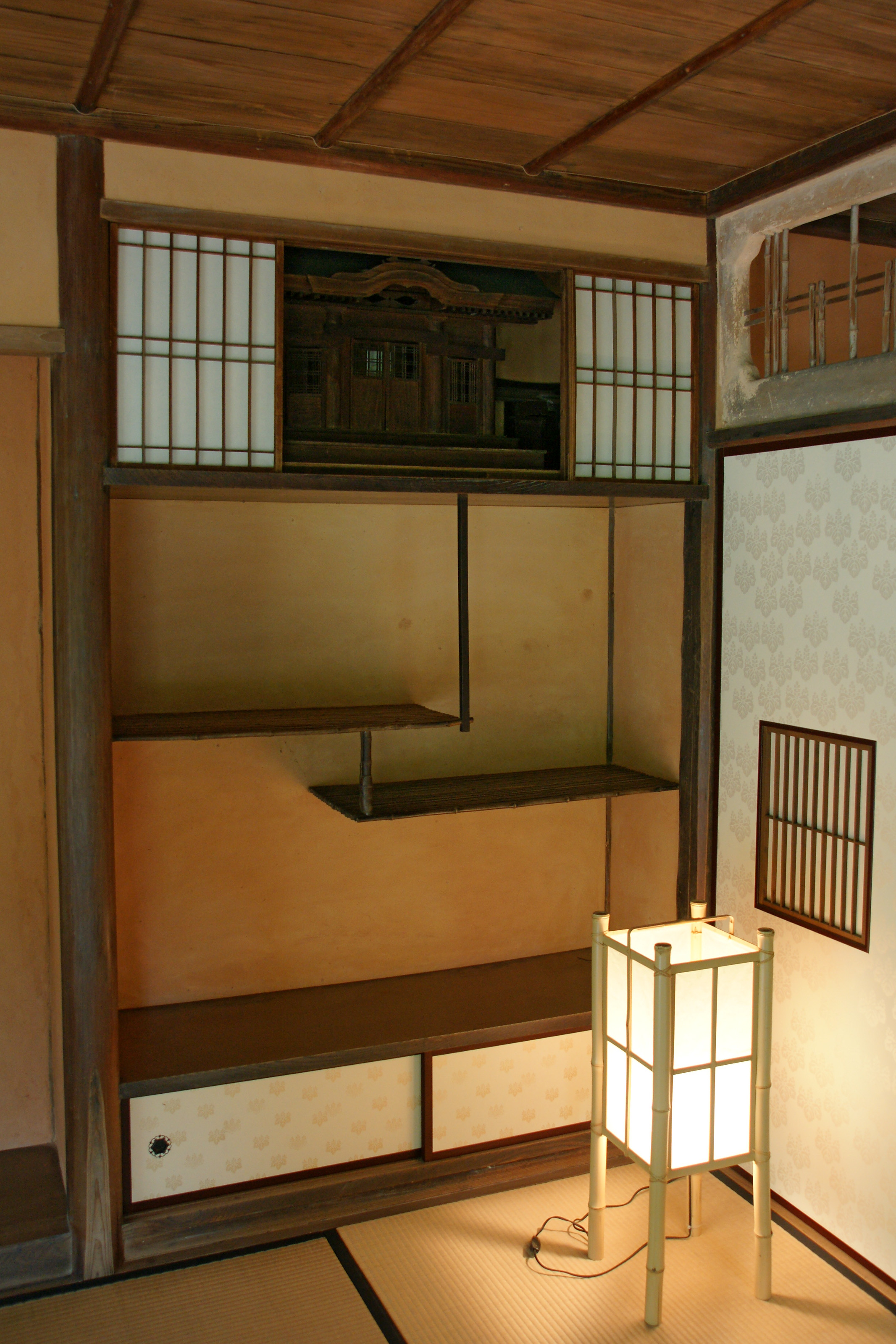 Old Toshima House, Yanagawa, Fukuoka prefecture, Japan